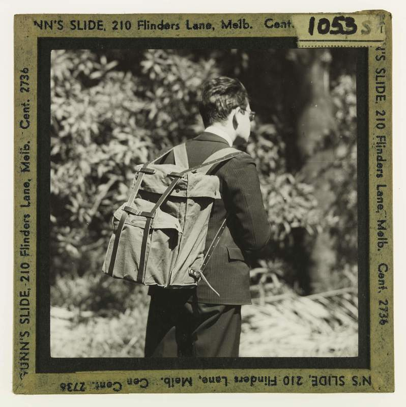 Forests Commission Victoria RC-16 Radiophone - circa 1940